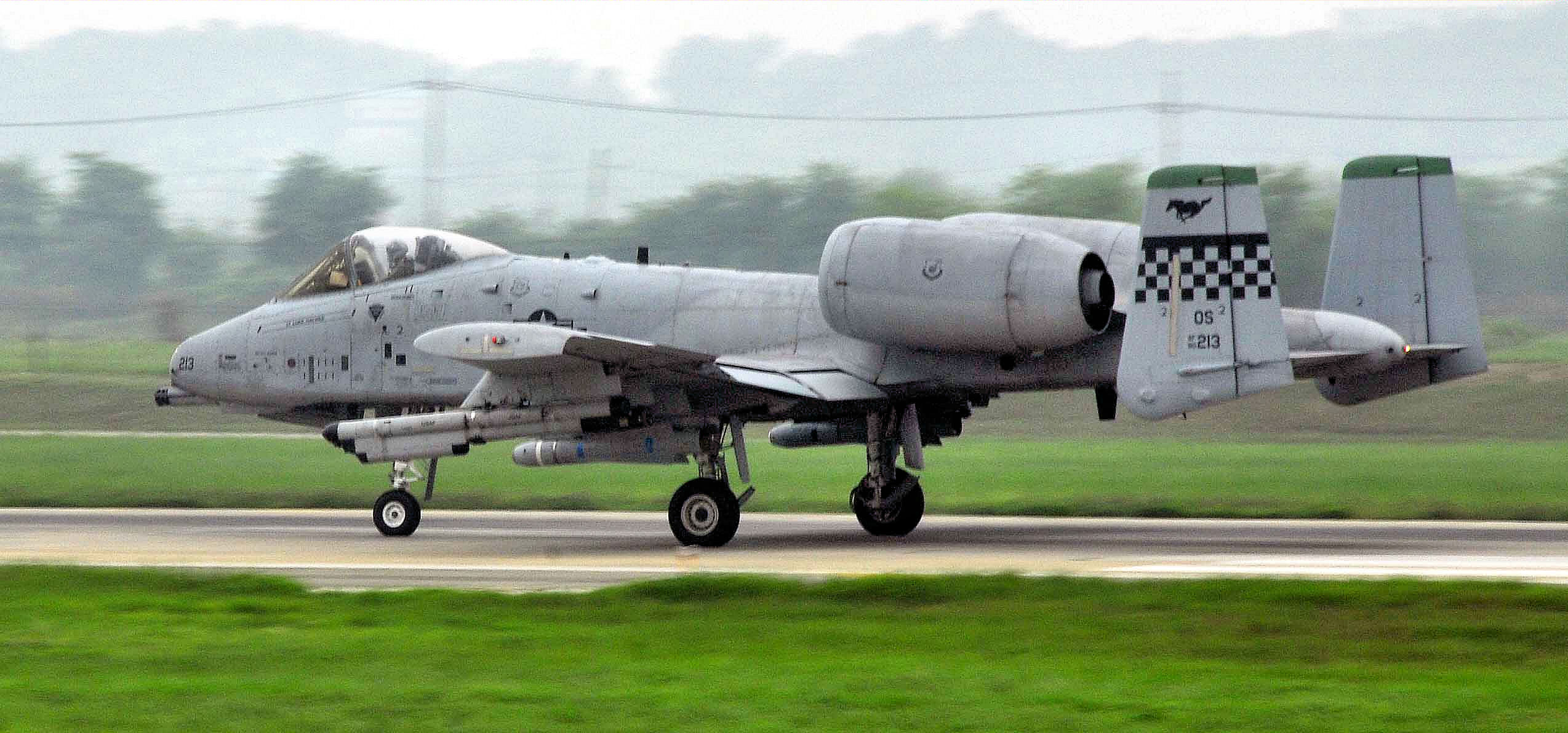 OSAN AIR BASE, Republic of Korea -- An A-10 Thunderbolt II from the 25th Fighter Squadron throttles down the runway during a base-wide exercise here July 23. (U.S. Air Force photo/Senior Airman Christopher Boitz)